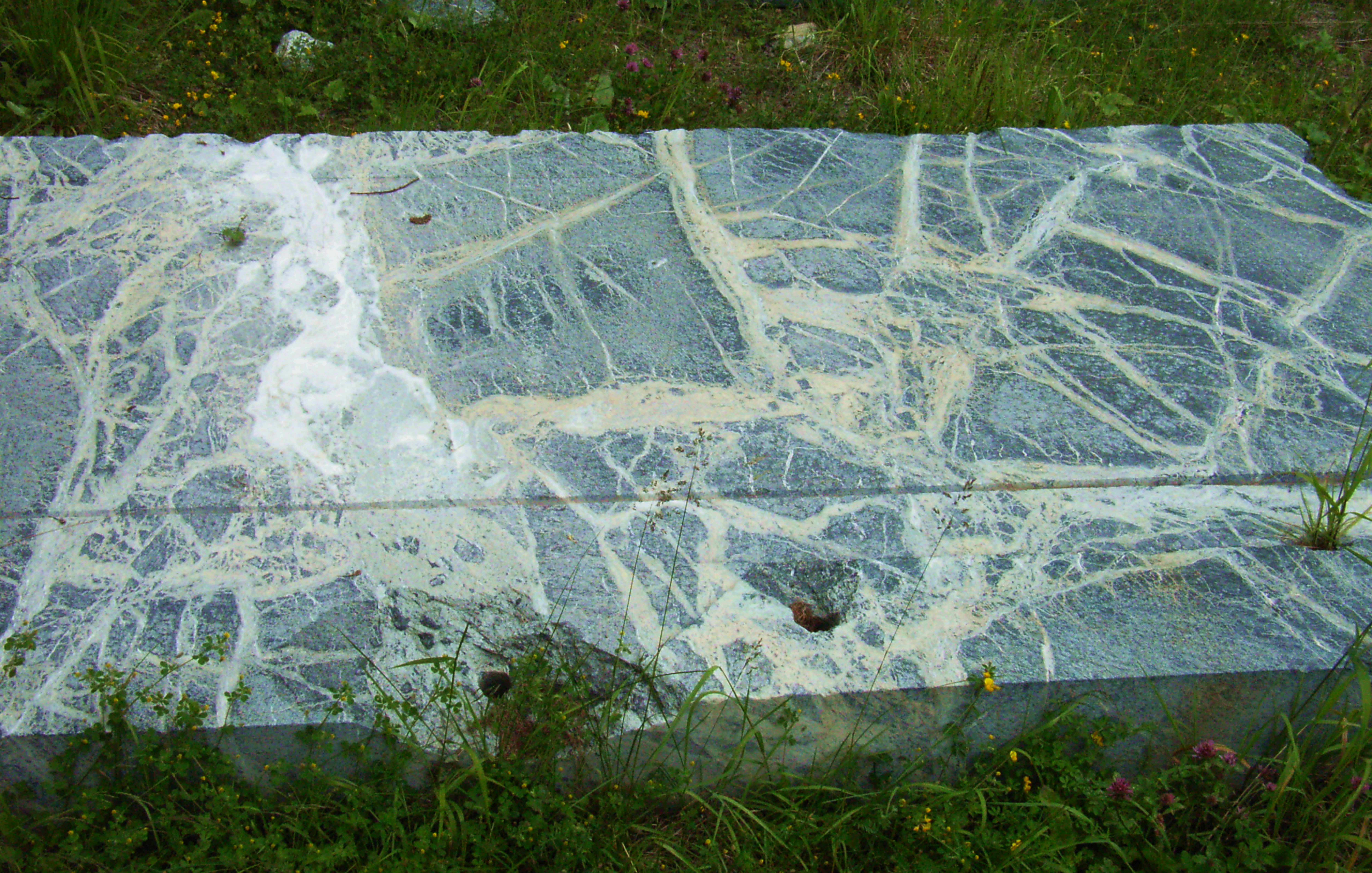 Gressoney Valley / Val di Gressoney, dimension stone serpentinite from Gressoney (Aoste Region, Italy)